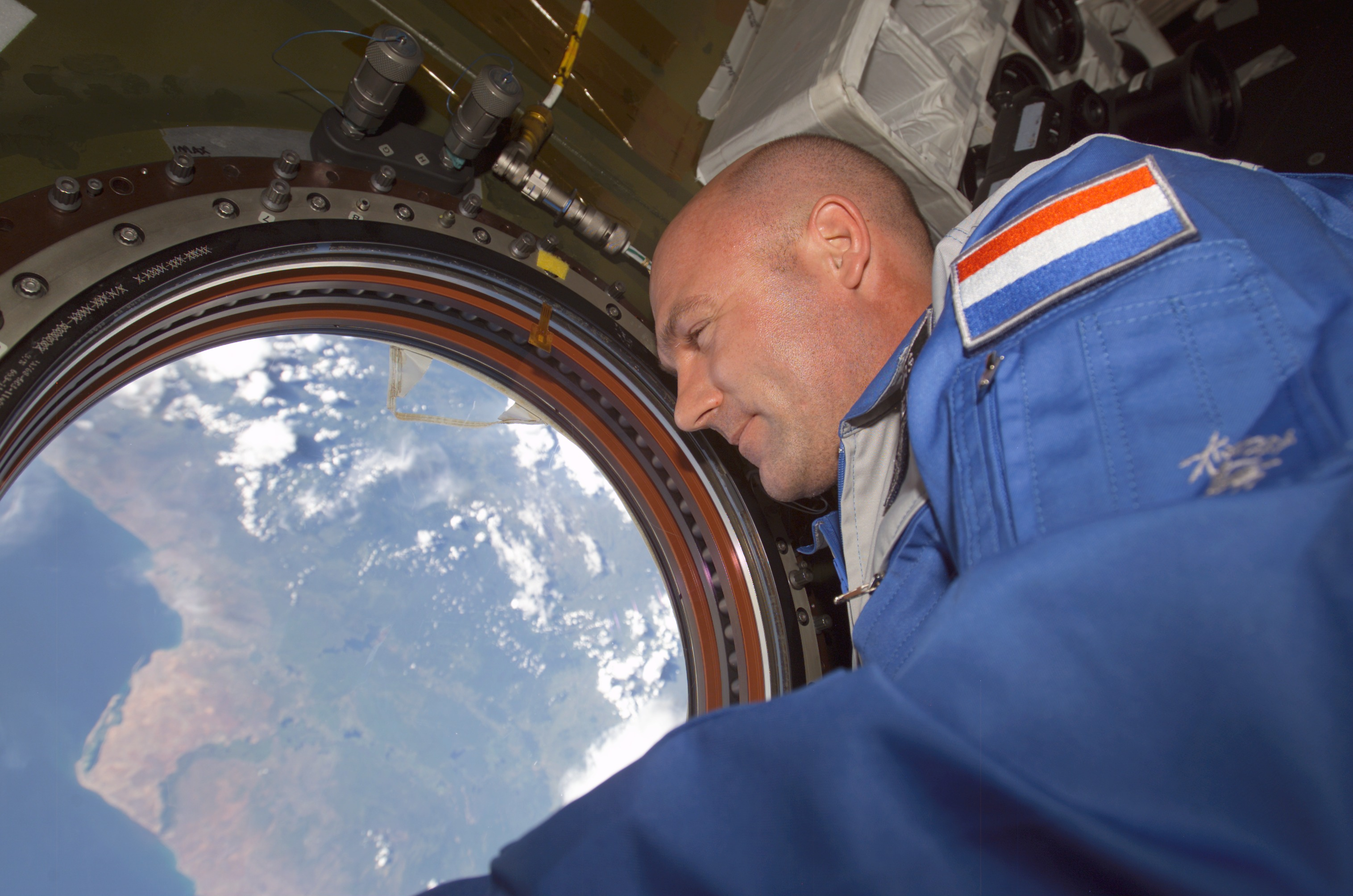 European Space Agency astronaut Andre Kuipers of the Netherlands looks through the Earth observation window in the Destiny laboratory on the International Space Station soon after arriving in a Soyuz spacecraft for several days' stay onboard the Earth-orbiting complex.